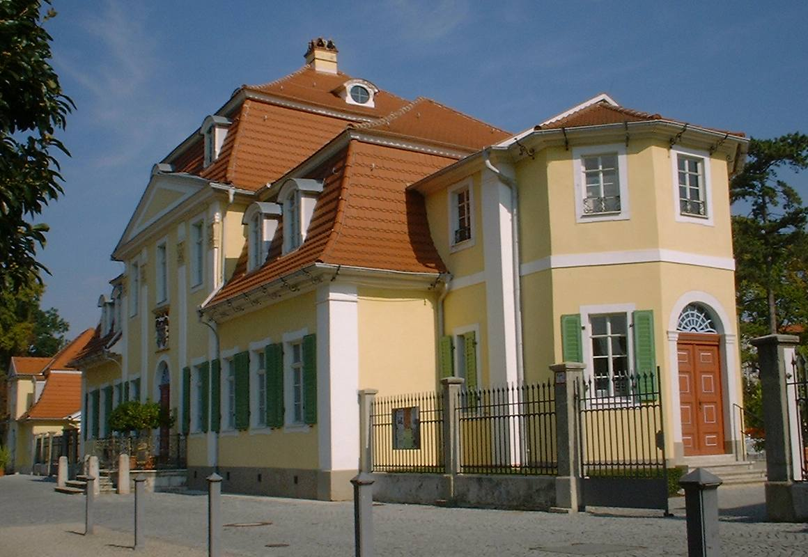 Palace in Bad Langensalza in Thuringia, Germany